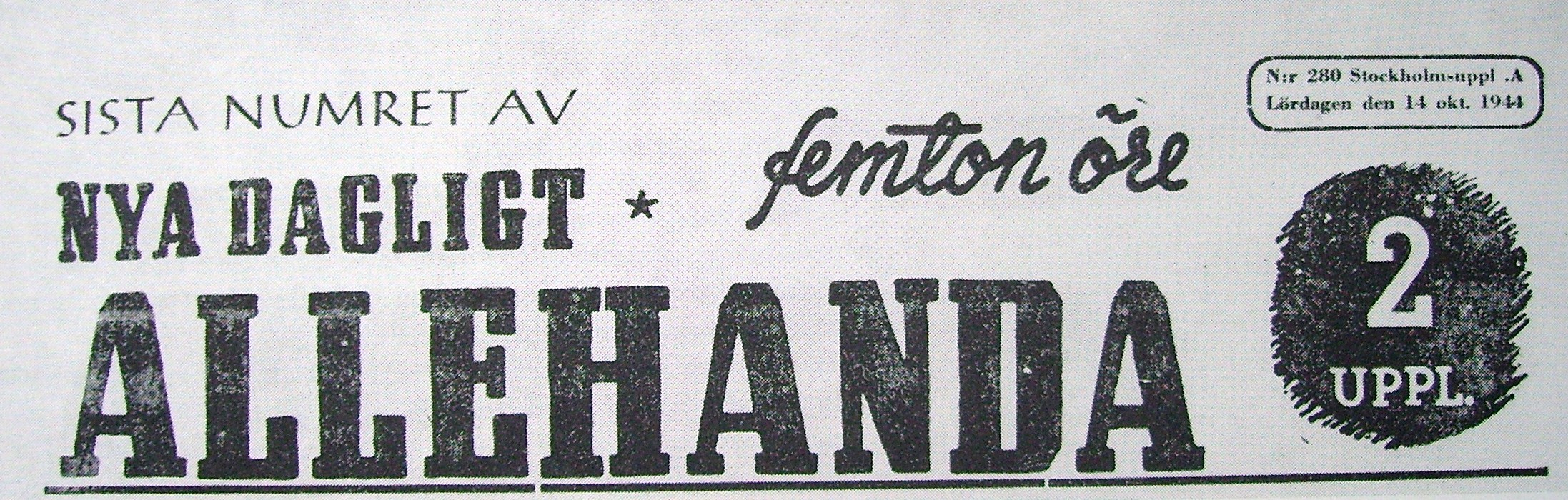 Picture of the last edition of Nya Dagligt Allehanda, Swedish news paper